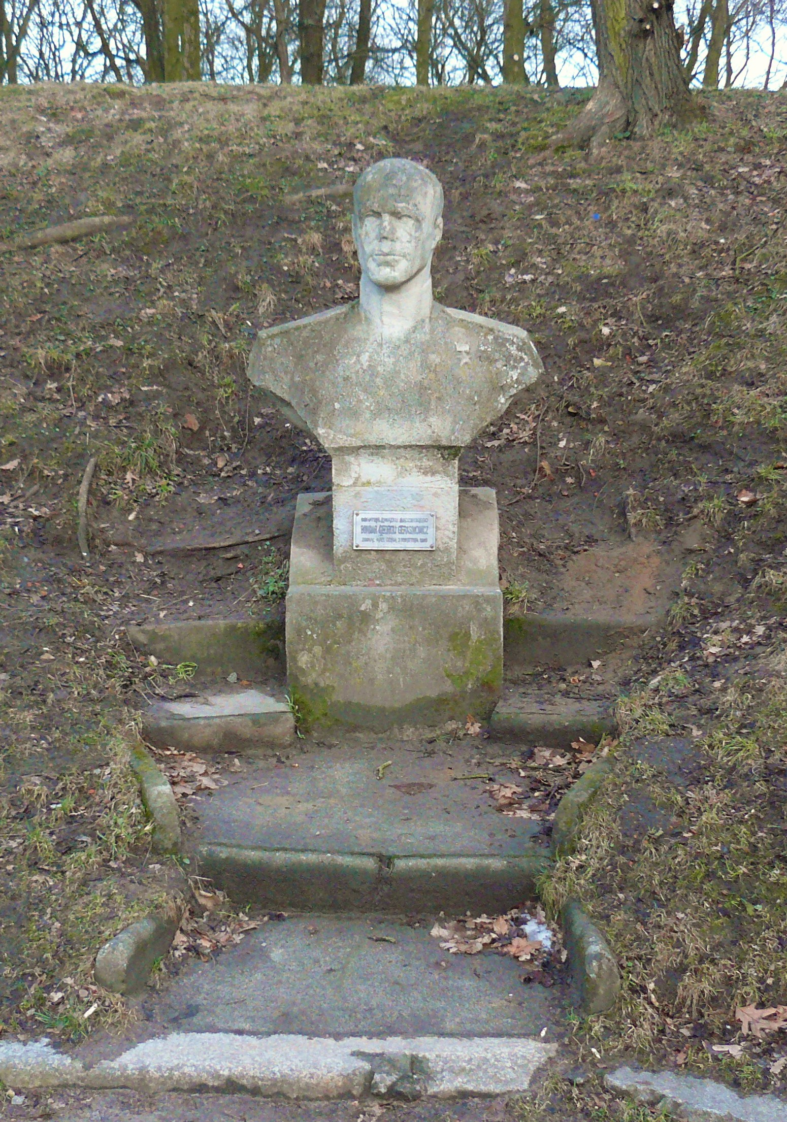 Georgij Bondar, Citadell, Poznan.